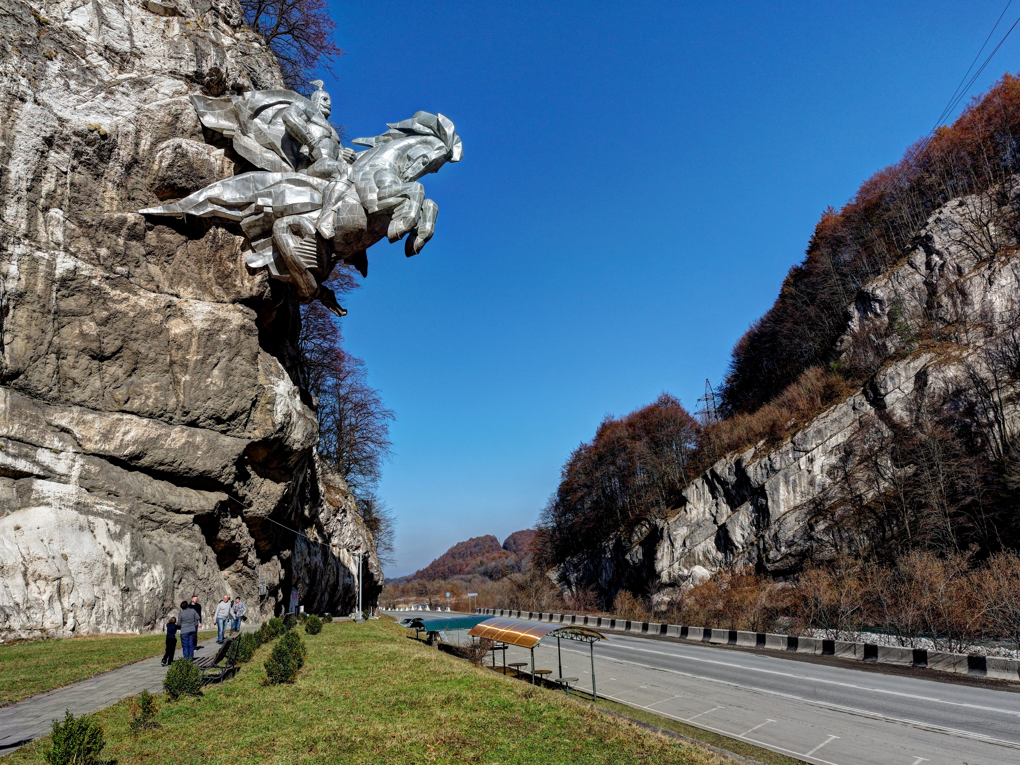 North Ossetia. Alagirsky District. Monument Uastyrdzhi